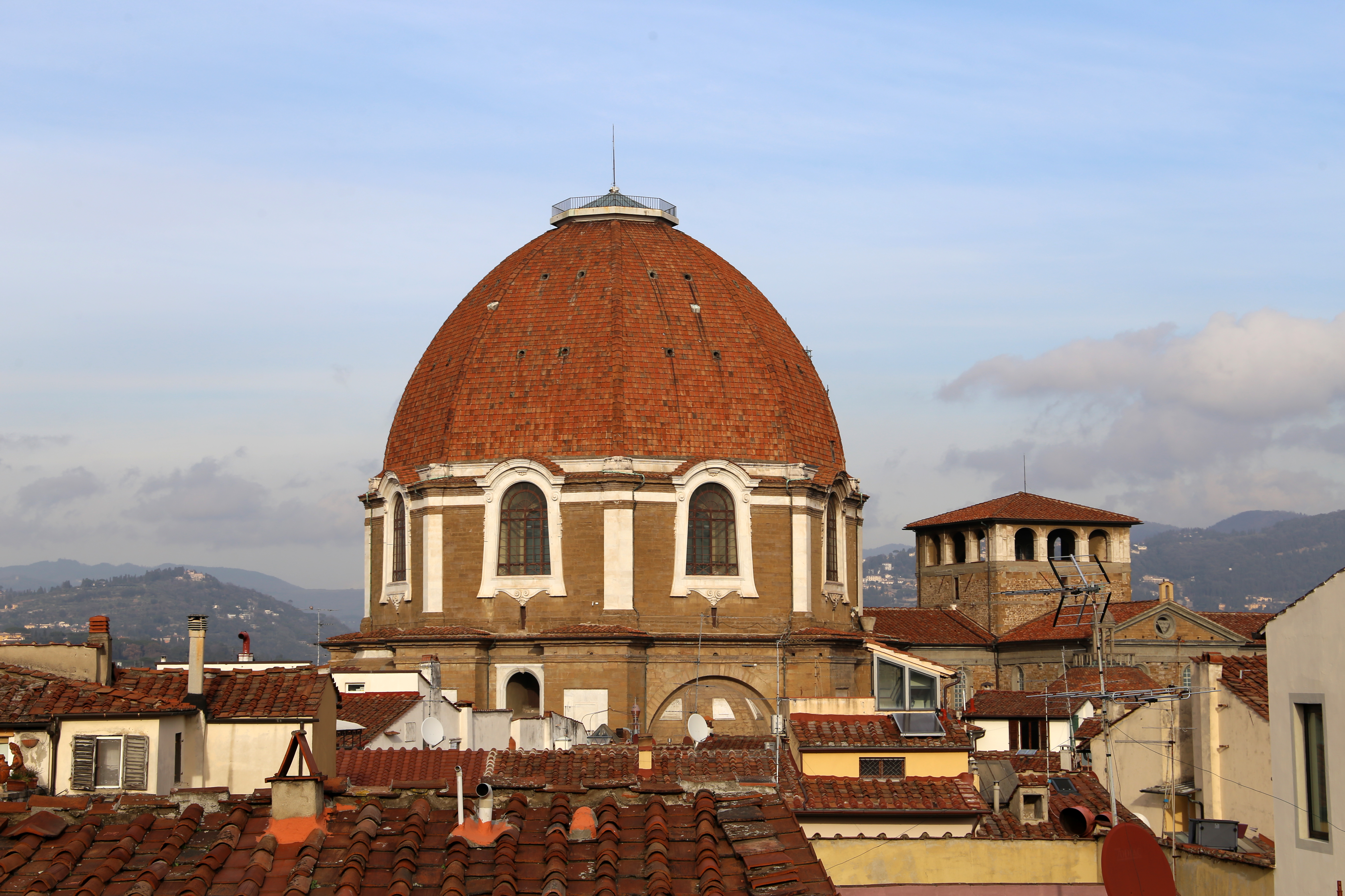 Via Panzani, Florence